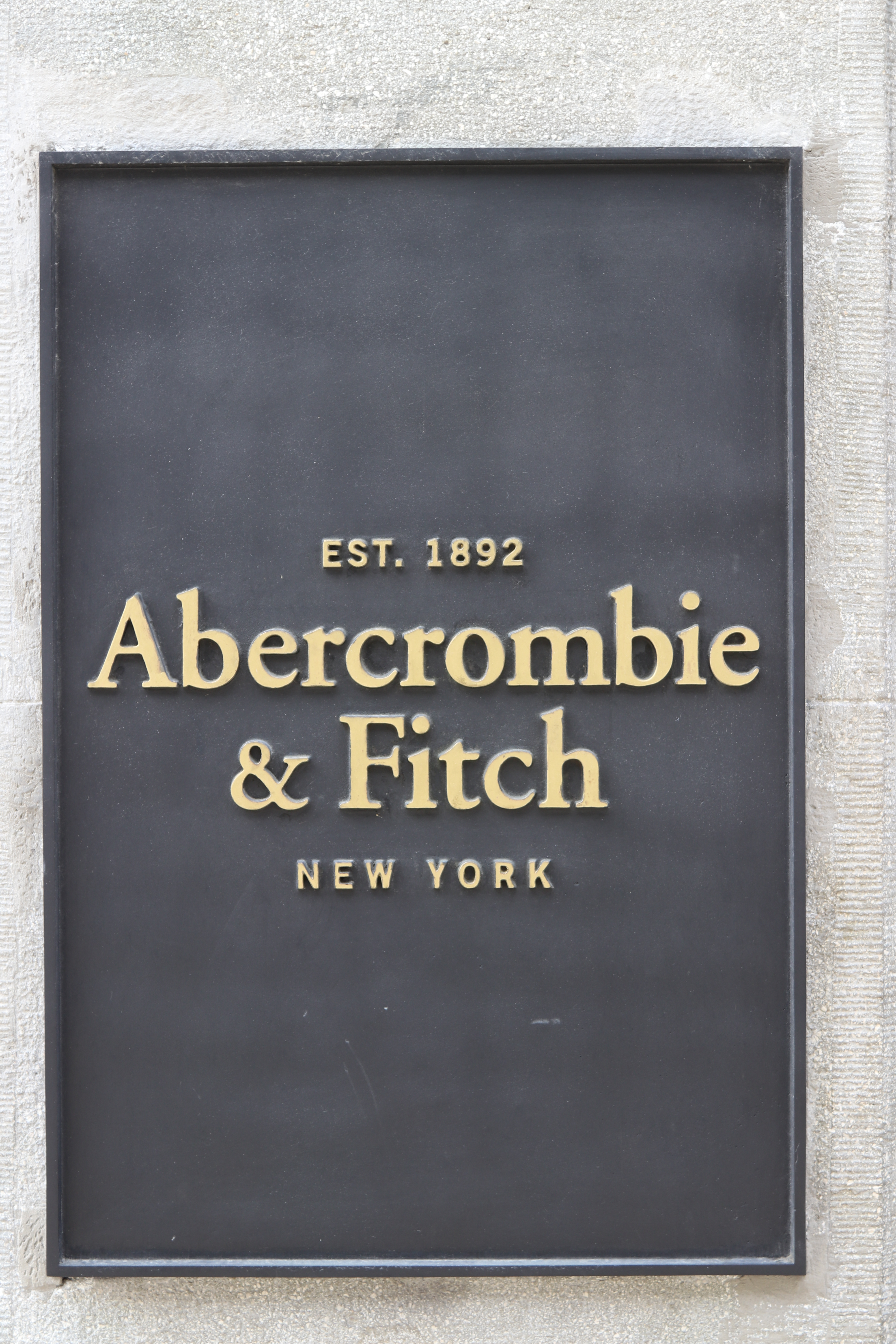 Abercrombie & Fitch, Sign at the store in Munich, Germany, Sendlinger Strasse